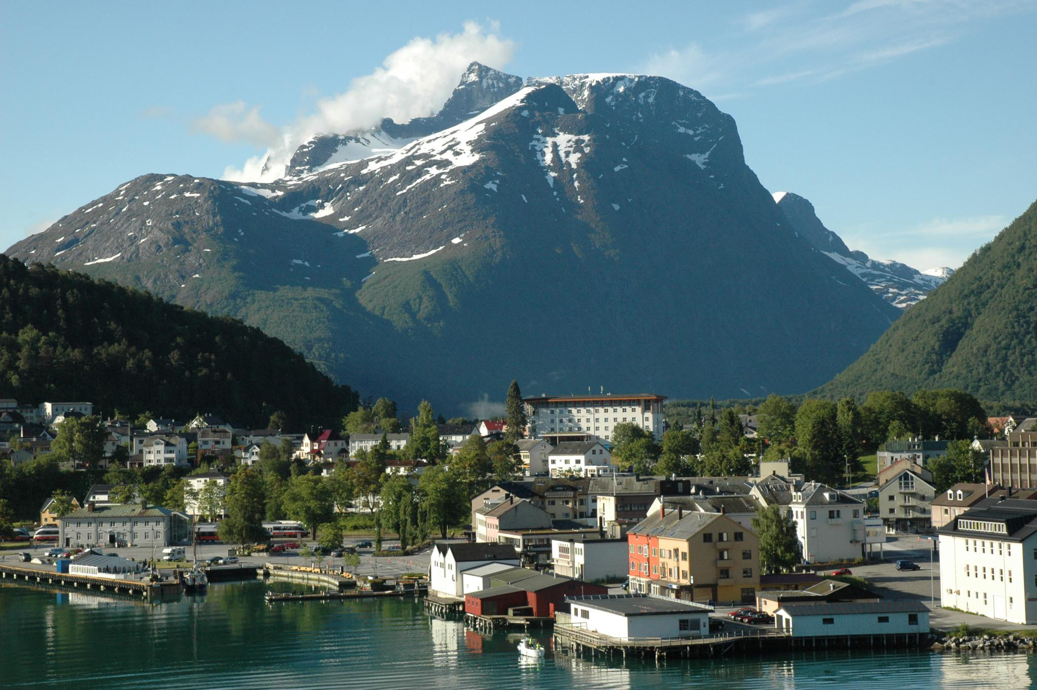 Åndalsnes, Norway. (Spot of dirt near the upper left corner removed by Blue Elf.) Original description: Ankunft in Andalsnes